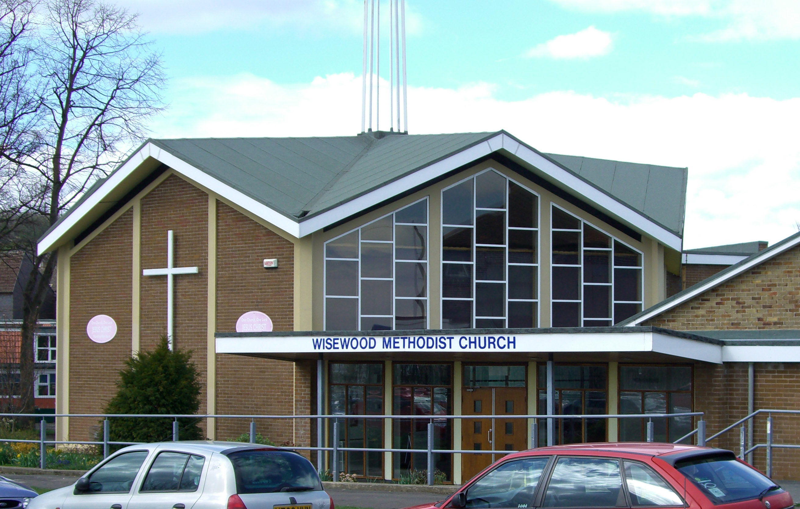 Wisewood Methodist Church in Sheffield, South Yorkshire